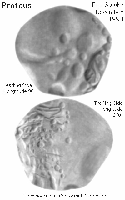 Original caption SHADED RELIEF MAP OF PROTEUS[1] Proteus.gif is a shaded relief map of Proteus, a small inner satellite of Neptune. As with all maps, it is the cartographer's interpretation and not all features are necessarily certain given the limited data available - this interpretation stretches the data as far as is feasible. The original map was published in its full form with latitude-longitude grid and feature names, in: Stooke, P.J., 1994. "The Surfaces of Larissa and Proteus", EARTH, MOON AND PLANETS, V. 65, pp. 31-54. Positions in the map are controlled by a digital shape model, described in that paper. For this map, the three dimensional convex hull of the shape model was projected into the Morphographic Conformal Projection (the conventional Stereographic Projection modified for non-spherical worlds). The leading side (longitude 90 runs vertically down the centre) faces forwards in the orbit of Proteus. The trailing side (longitude 270 runs vertically down its centre) faces backwards along the orbit. Longitude 0 is at the righthand end of the leading side, and faces Neptune. As with all conformal (true shape) projections, the scale in these maps varies, increasing from the centre to the outer edge. The map projection is described in: Stooke, P.J. and Keller, C.P., 1990. "Map Projections for Non-Spherical Worlds / the Variable-Radius Map Projections", CARTOGRAPHICA, V. 27, No. 2, pp. 82-100. This version of the file, with labels intact, is in the public domain. Philip Stooke, Department of Geography, University of Western Ontario, London, Ontario, Canada N6A 5C2